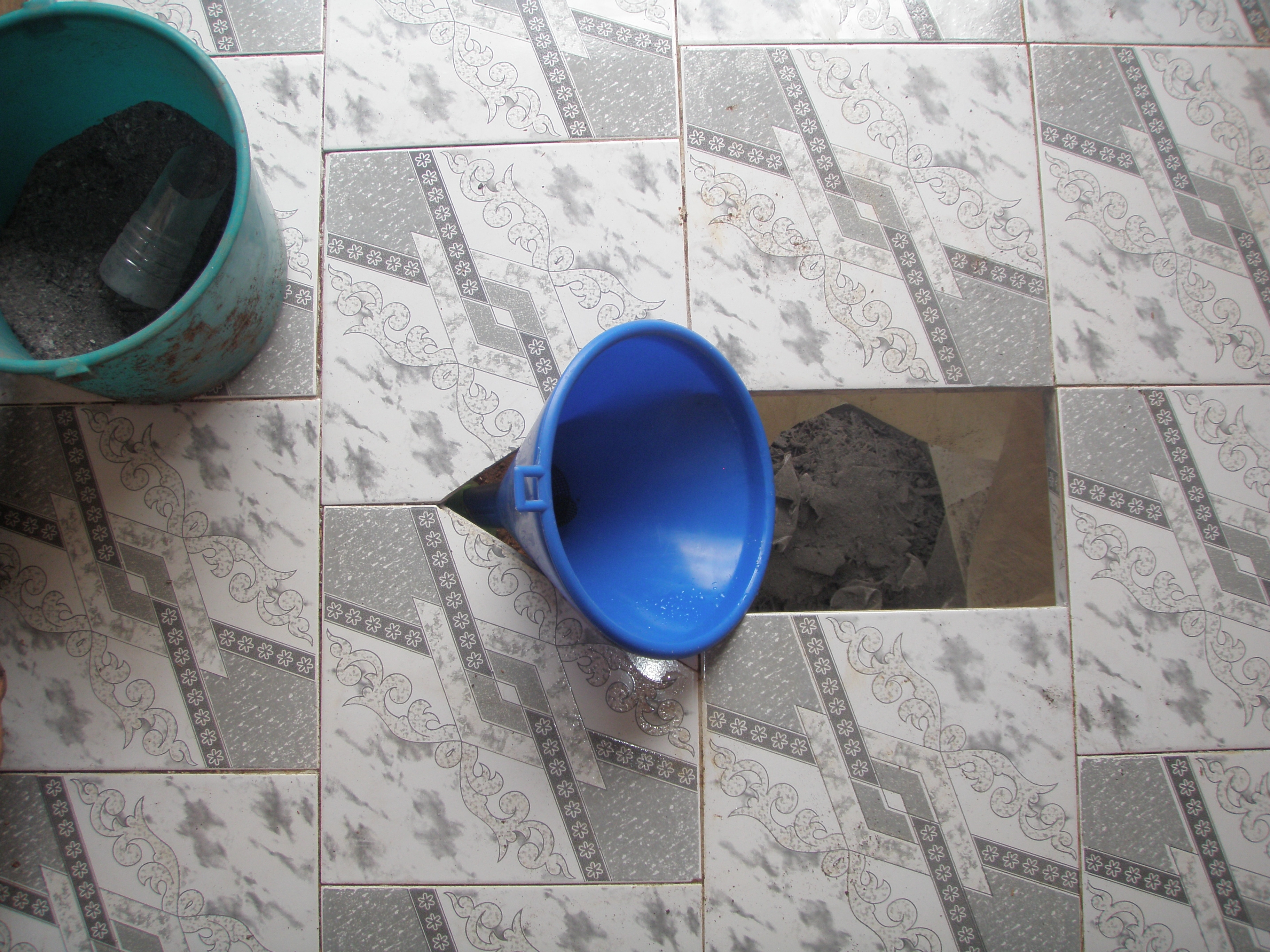 The final product is durable and easy to clean. The user squats with one foot on each side of the blue funnel. Chris Canaday